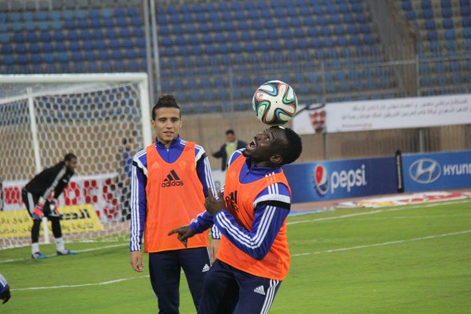 Mohamed Koffi training with Zamalek SC before a match against Wadi Degla FC. ; Petro Sport Stadium